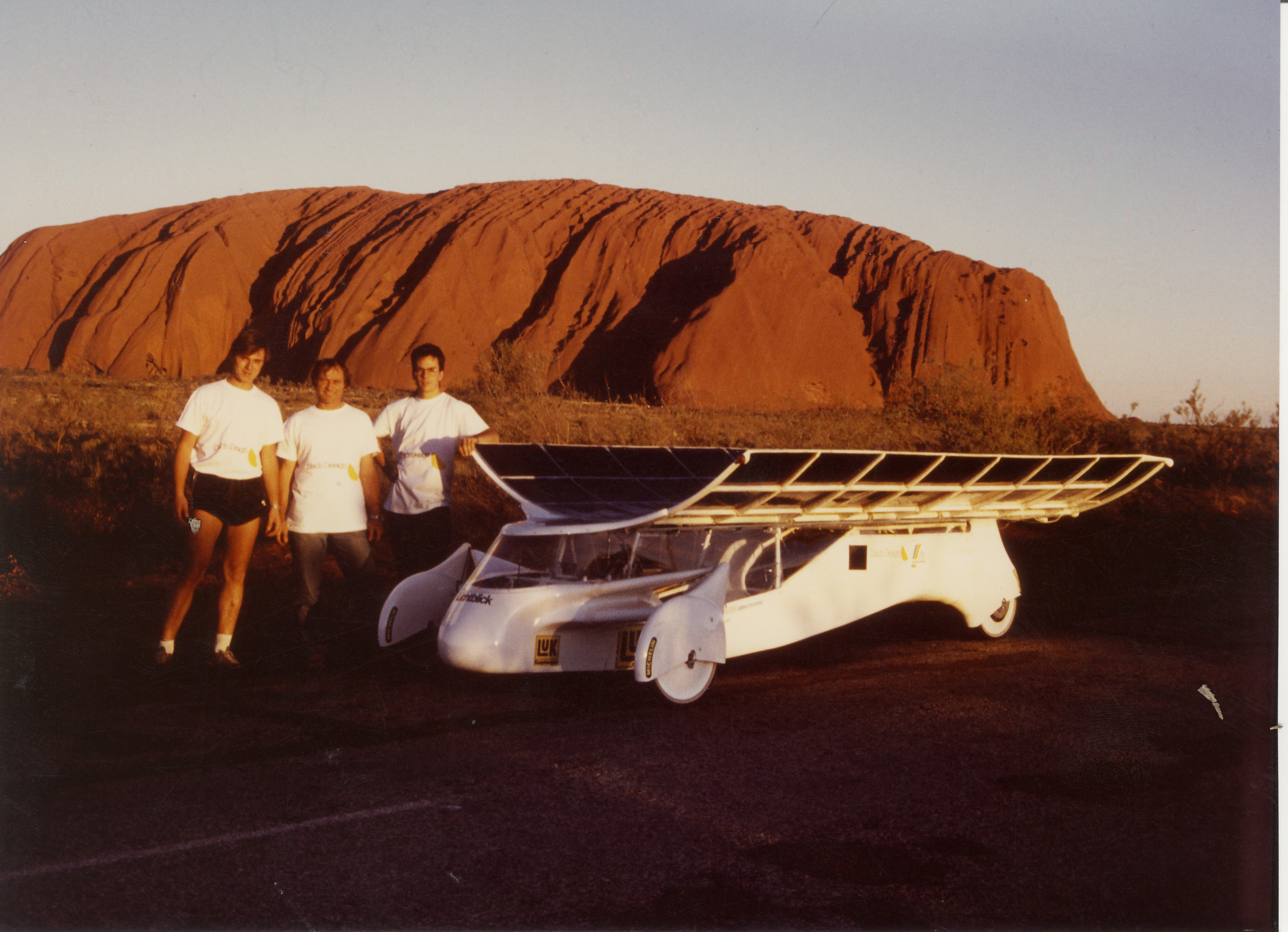 Rolf Disch and his racing team during the World Solar Challenge in front of Uluru (Ayers Rock) in 1987.